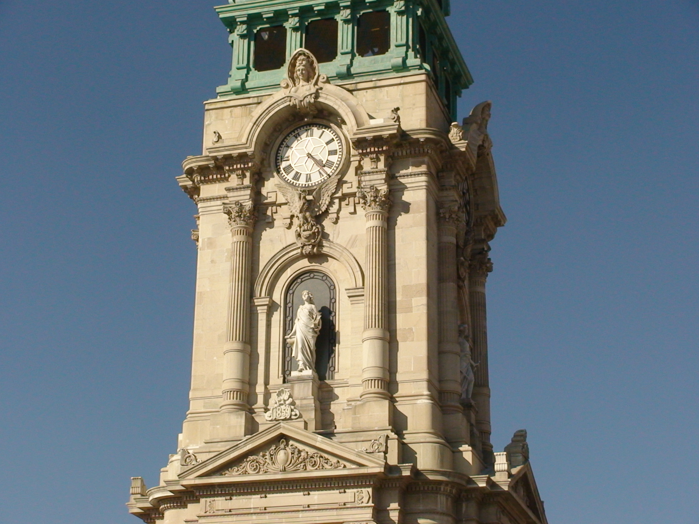 Clock Tower in Pachuca